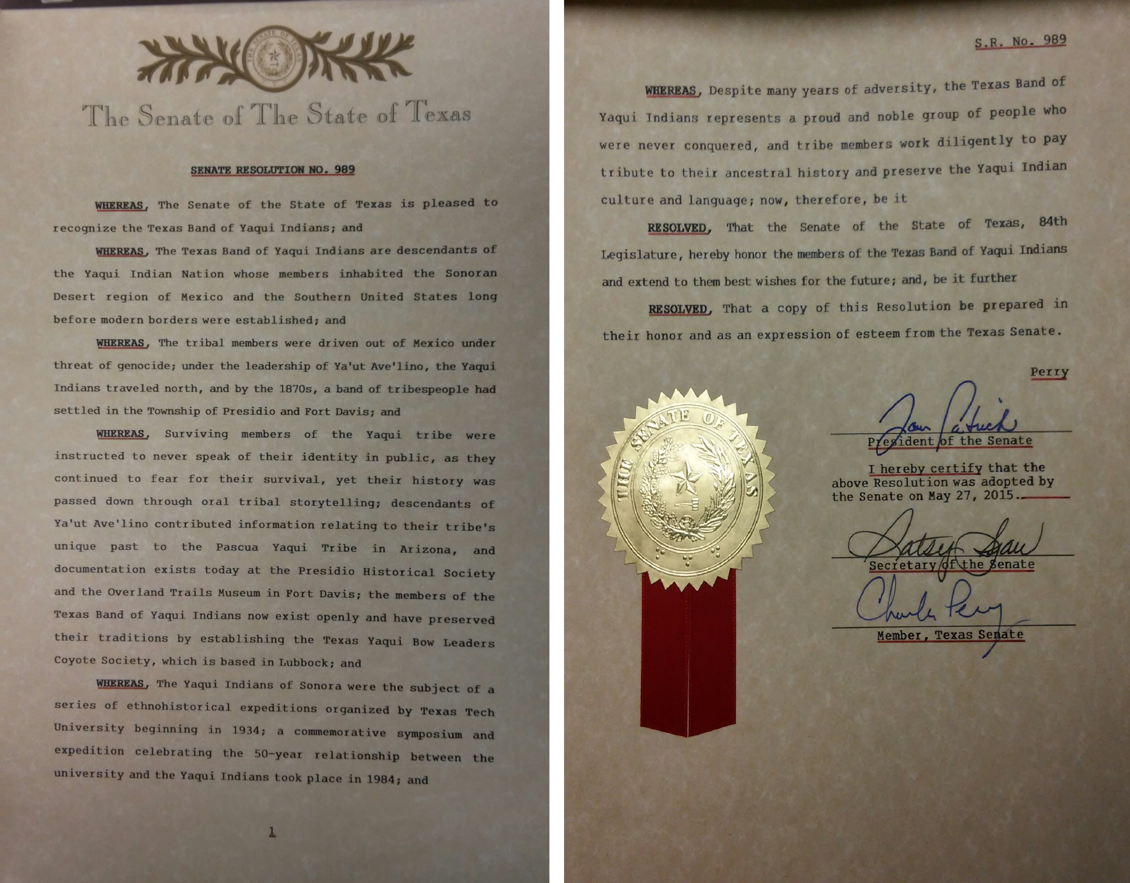 State of Texas Resolution SR989 Recognizing the Texas Band of Yaquis as Native American People